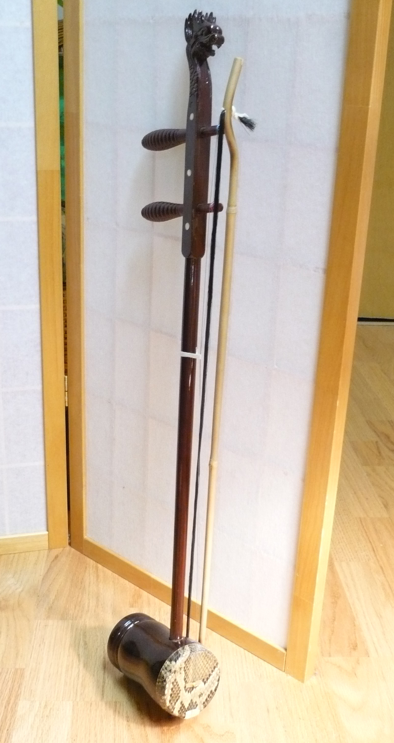 A tihu (two-stringed vertical fiddle) used in Chaozhou music. The tihu was purchased in Singapore in approximately 2000. The tihu has a bamboo bow with black horsehair, steel strings, and a rectangular bamboo bridge.